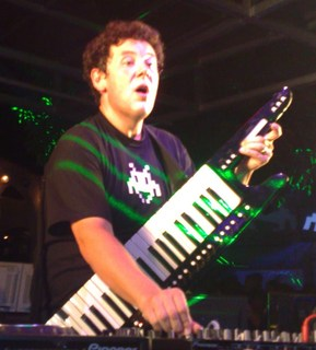 Live by Joachim garraud